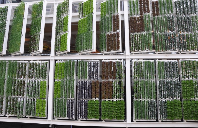 The crop wall occupying one entire side of the USA pavilion of Expo 2015 represents a highly integrated approach to agriculture and tells a story of food production for the future. USA Pavilion, Expo 2015, Milan, Italy.